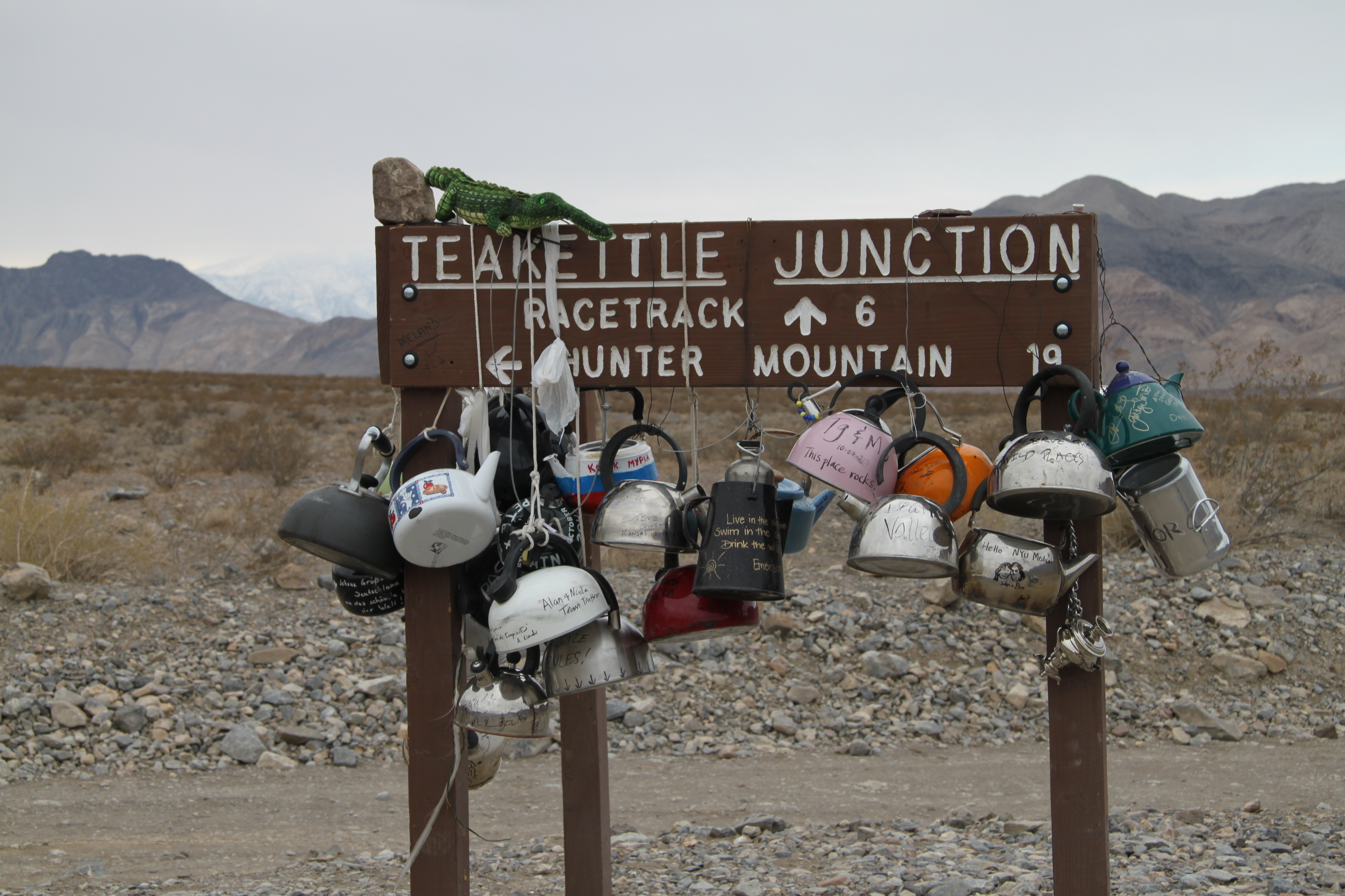 Teakettle Junction as of December 2011